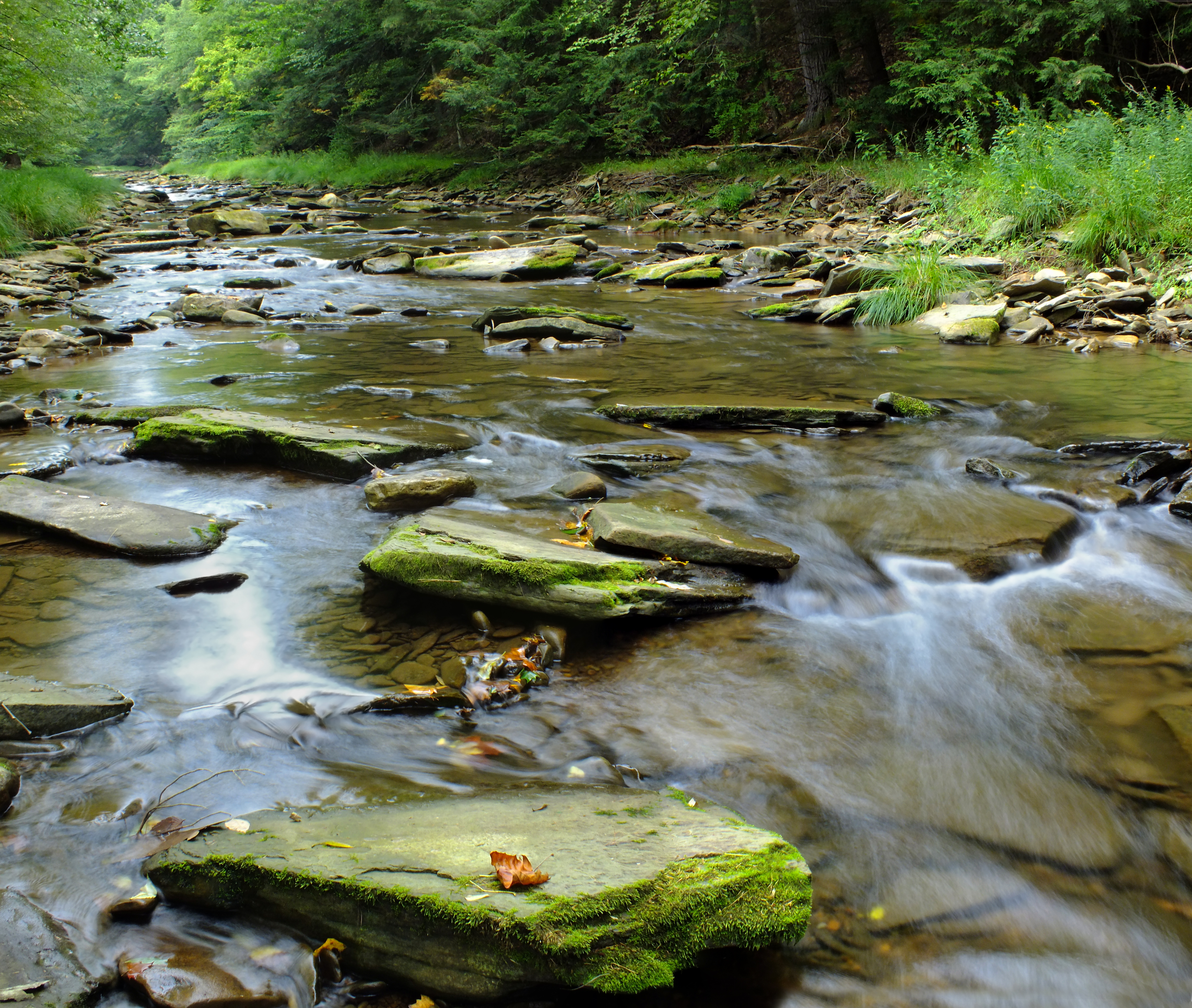 Susquehannock State Forest, Clinton County–Potter County line, near the Forrest H. Dutlinger Natural Area.